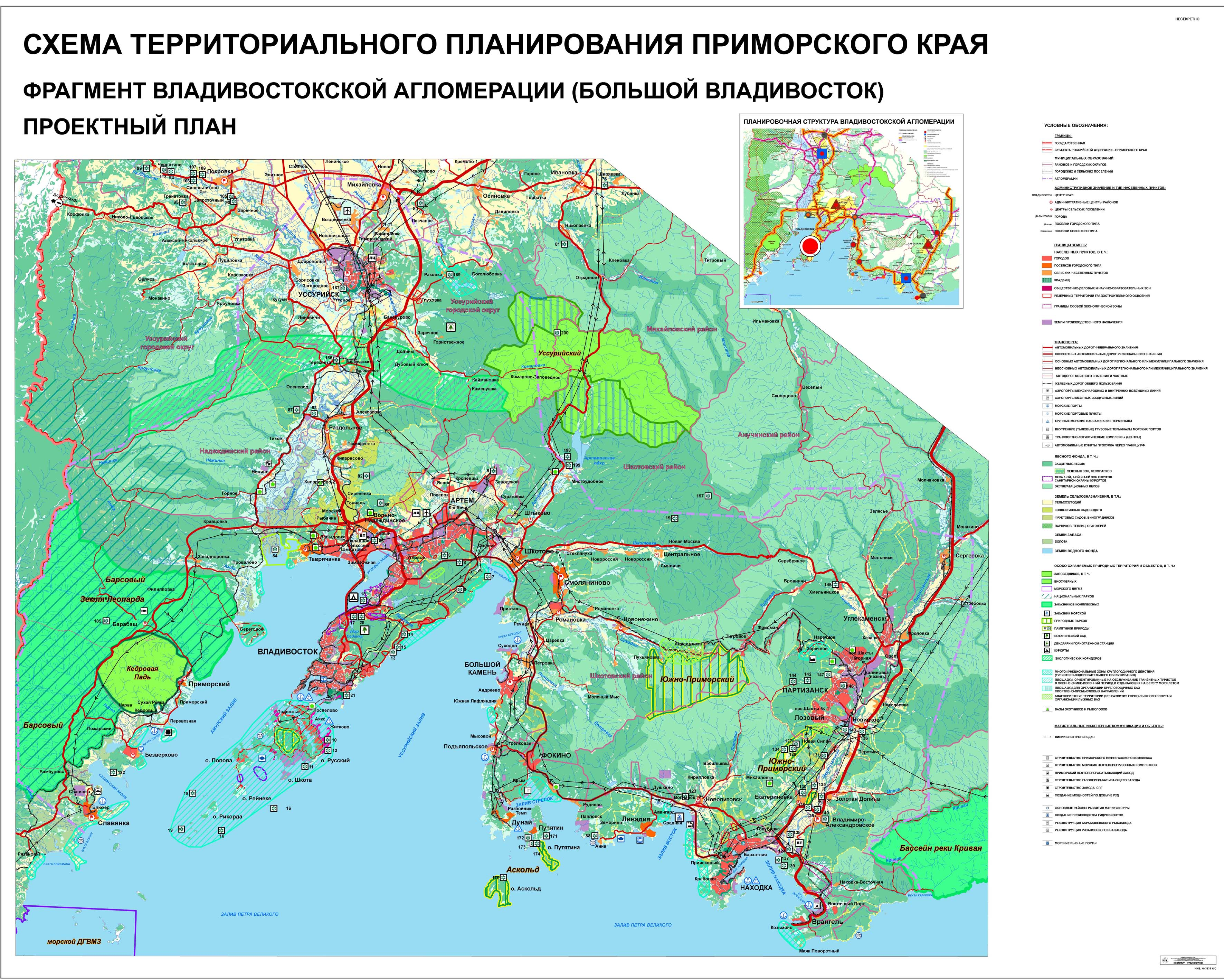 Vladivostok city metropolitain area map